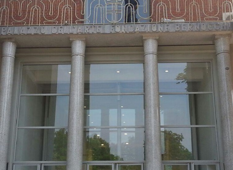 Triennale di Milano, Palazzo Fondazione Bernocchi